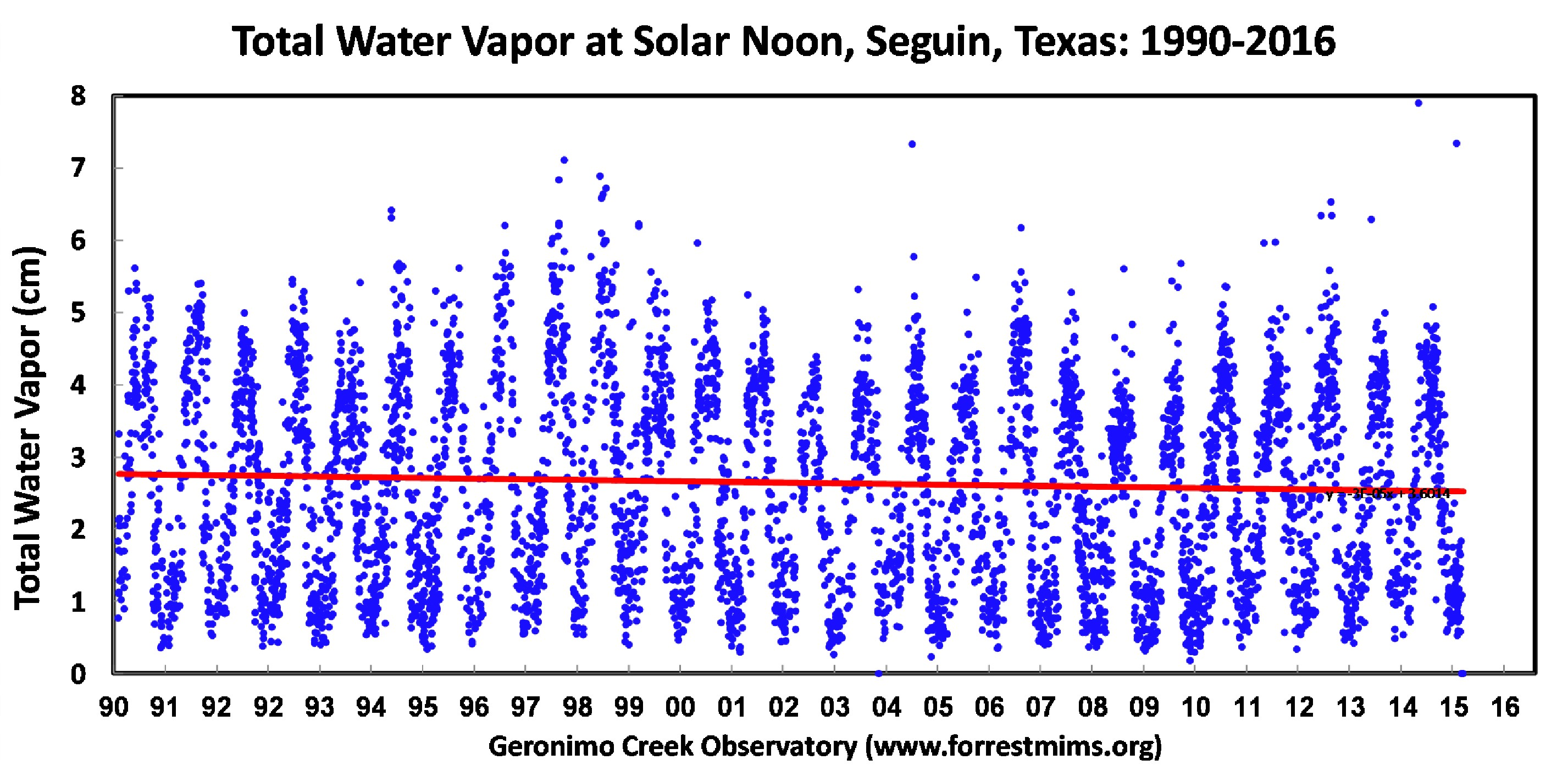 Total column water vapor measured at 940 nm and 830 nm (reference wavelength) using the same sun photometer at solar noon from 1990 to 2016 at Geronimo Creek Observatory. The trend is slightly down (app. -1.5 mm/decade). Calibration: NOAA GPS data from Galveston, TX, and Mauna Loa Observatory, HI. Measurements are made at or near solar noon when clouds are not before the sun. Water vapor is the key global warming gas. The 1997-98 peak occurred during a major El Nino. No such peak occurred during the 2015-16 El Nino (at least so far). The general shape of the data resembles the global water vapor plot in NASA's ongoing NVAP study.